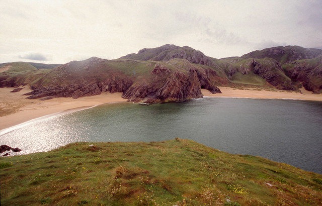 View over murder hole beach